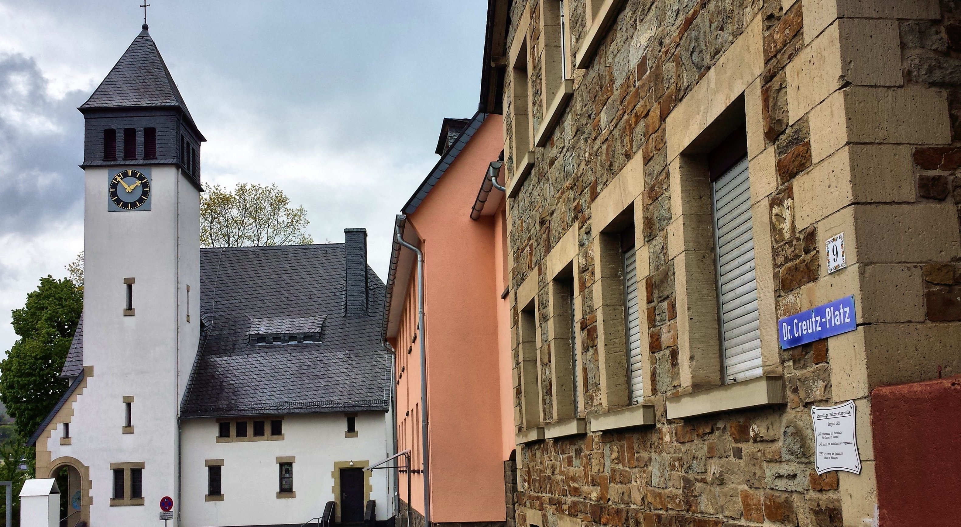 Dr. Creutz-Platz in Adenau